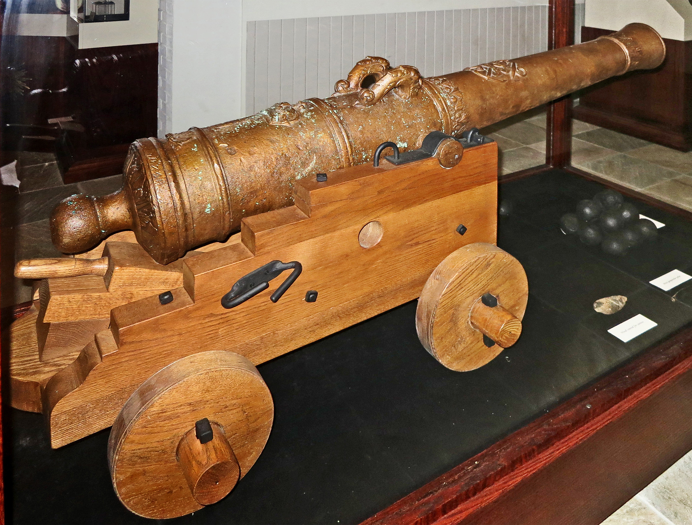 This Bronze four-pound cannon is from Robert de La Salle's ship La Belle. It sank during a storm in 1685, and the wreckage stayed on the seabottom for over three centuries. This is one of 3 such cannons recovered and is in the Matagorda County Museum in Bay City, Texas. (The wooden wheeled stand is a modern recreation.)